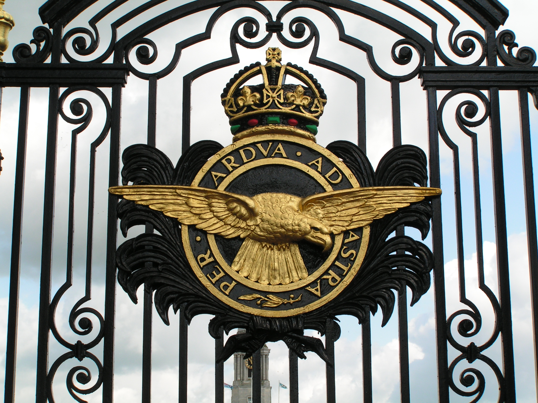 Photograph of the gates to the RAF College Cranwell showing the RAF Badge.